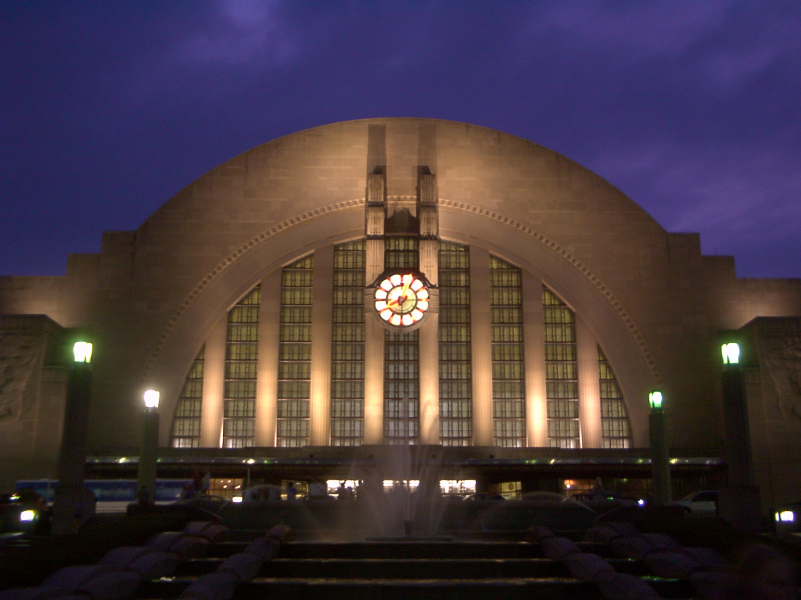 Cincinnati Union Terminal at Dusk